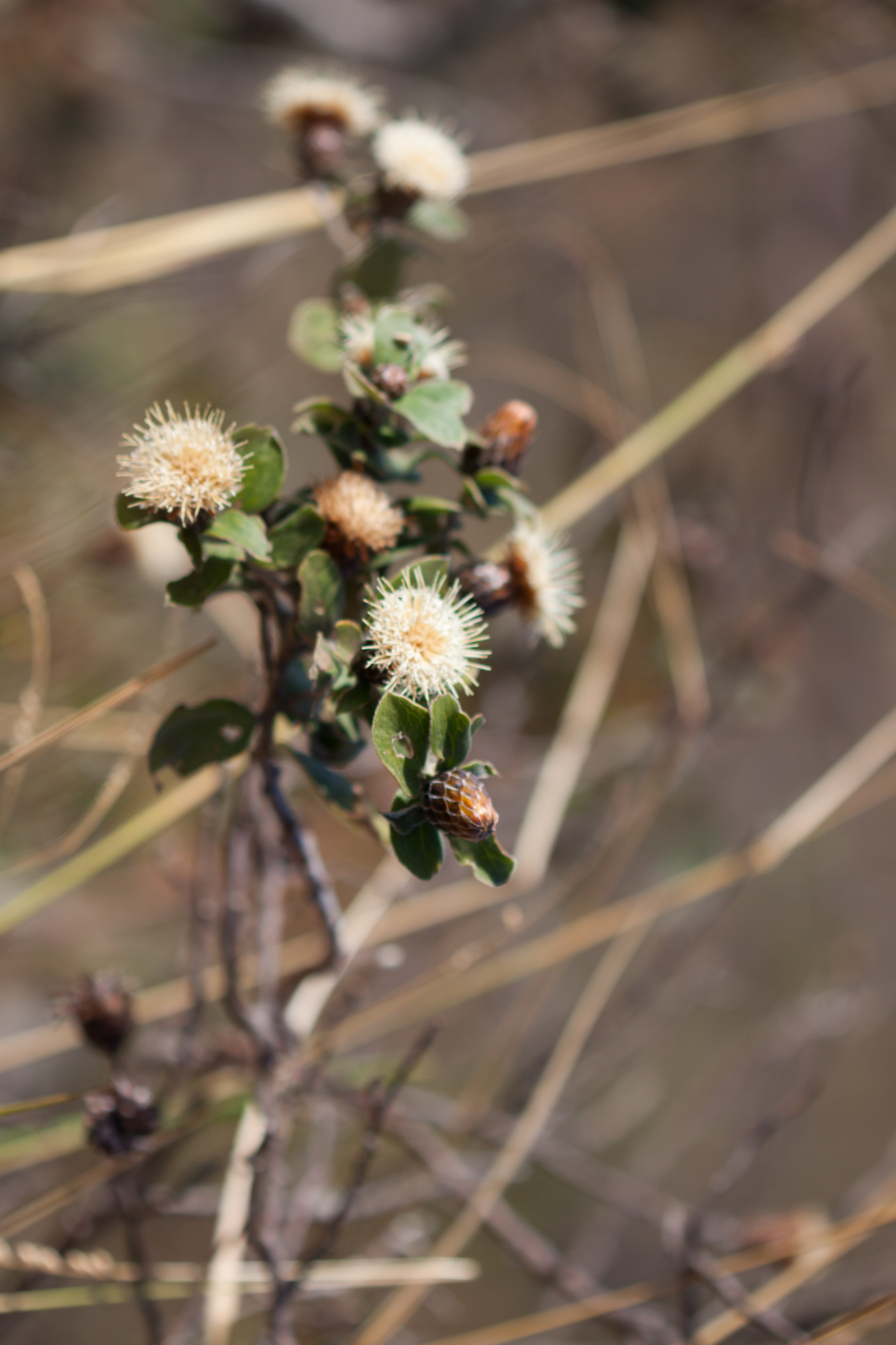 Dasyphyllum sprengelianum, photographed at Serra da Canastra, São Roque de Minas, Brazil